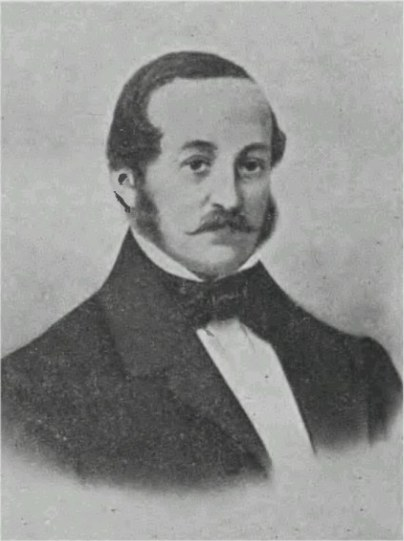 Portrait of Hugo Henckel von Donnersmarck (1811–1890)